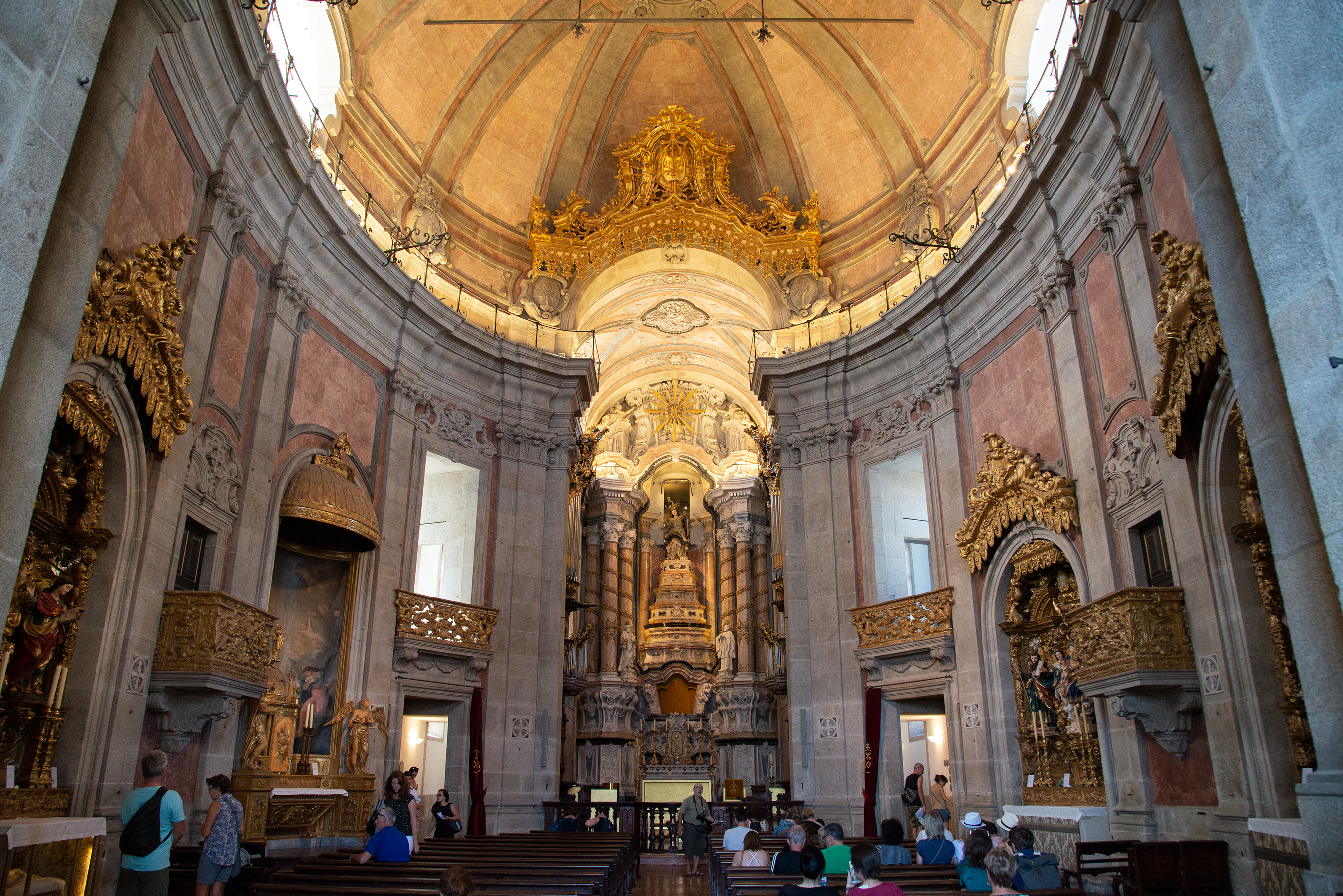 Igreja dos Clérigos, Altar area, Porto, 2019